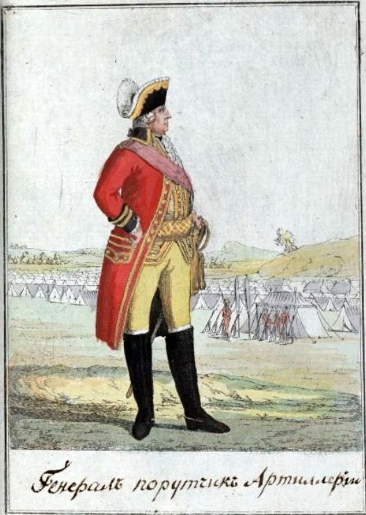 General-poruchik of the artillery (OF-7) in the Russian Imperial Army, ca. 1793.